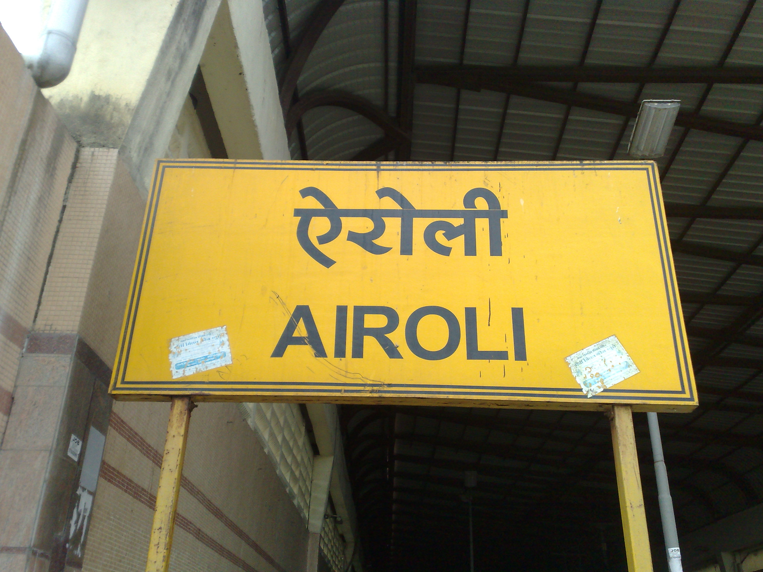 Stationboard - airoli